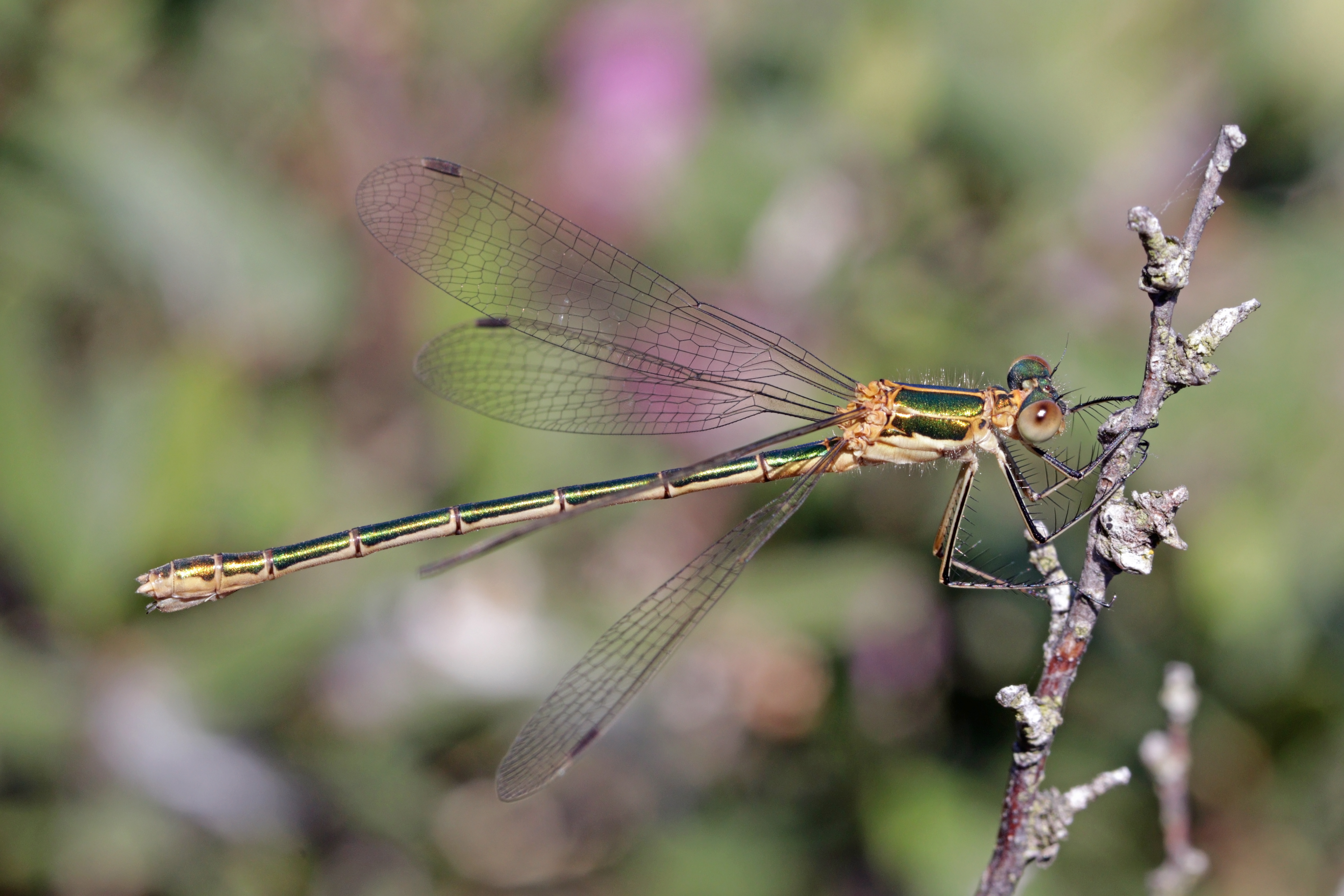 Emerald damselfly (Lestes sponsa) immature female, Ramsviklandet, Västra Götaland, Sweden